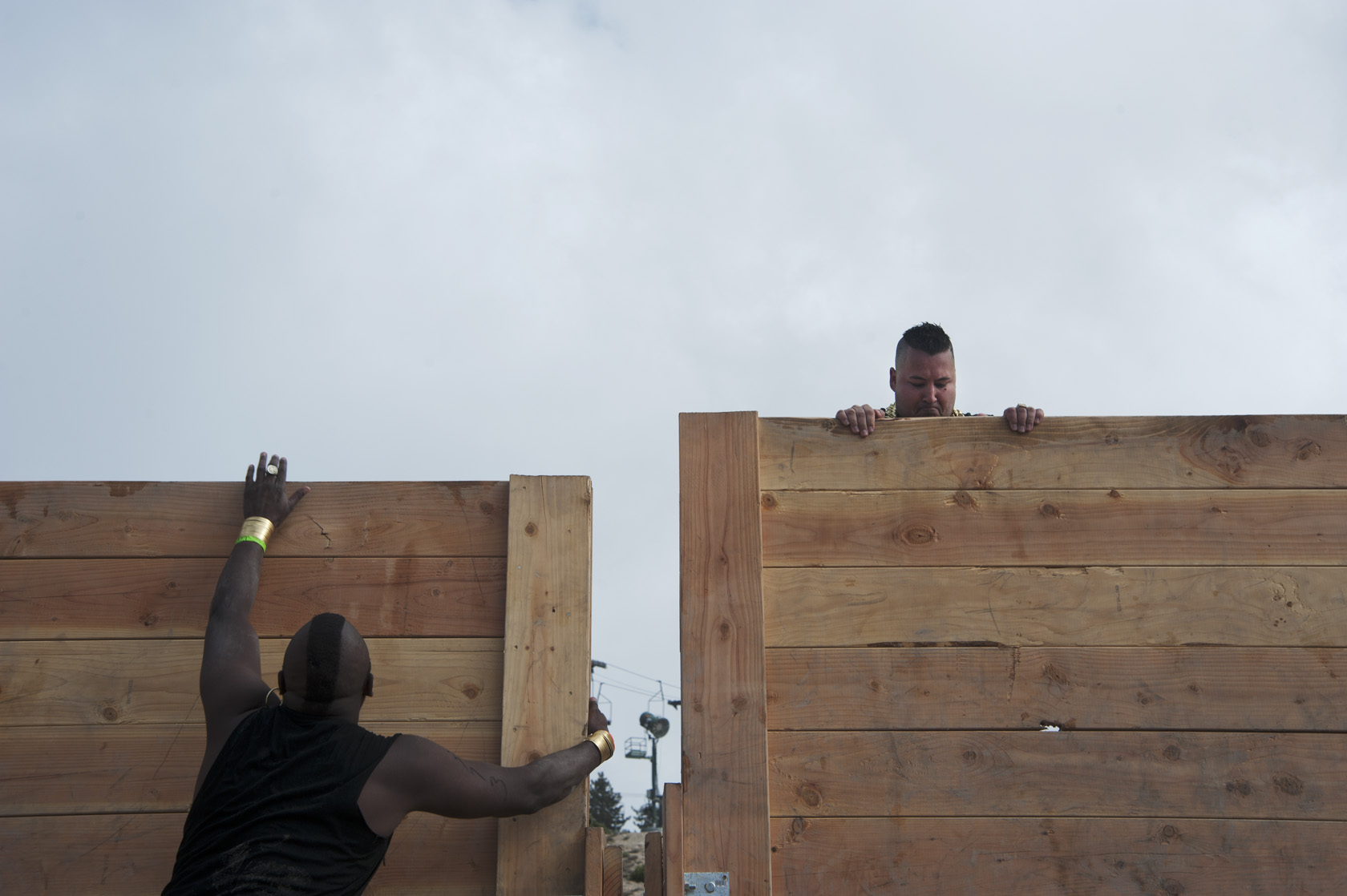 SNOW VALLEY, Calif. (May 28, 2011) Mass Communication Specialist 2nd Class Rufus Hucks, left, and Mass Communication Specialist 2nd Class Michael D. Blackwell II, assigned to Fleet Combat Camera Group, Pacific, climb over a 12-foot wall during the Tough Mudder competition. Tough Mudder is a 10-mile obstacle course designed by British special forces to challenge a competitor's strength and endurance. (U.S. Navy photo by Mass Communication Specialist 1st Class Matthew D. Leistikow/Released)